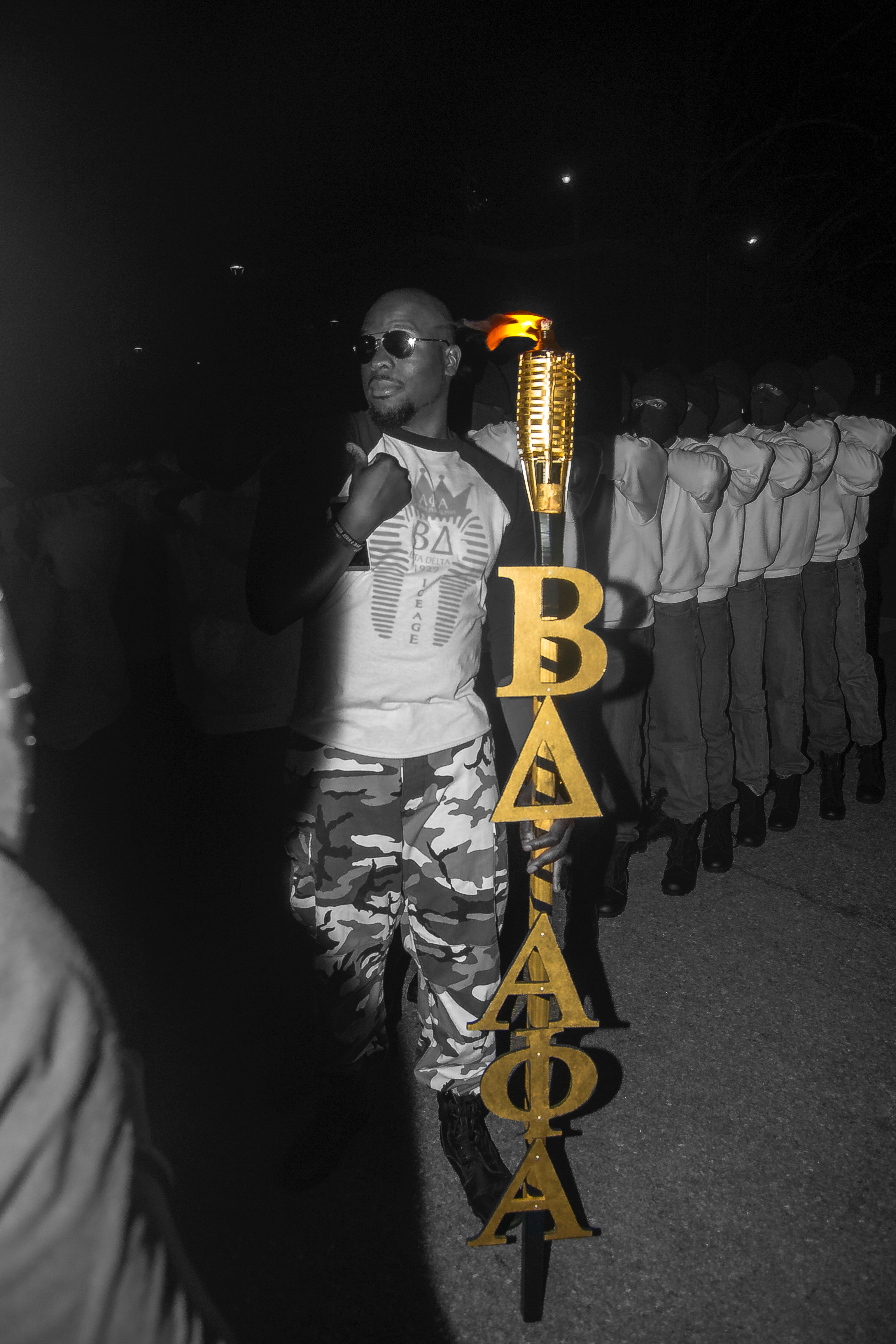 Beta Delta Chapter of Alpha Phi Alpha Fraternity Inc. - SC State University (SCSU)